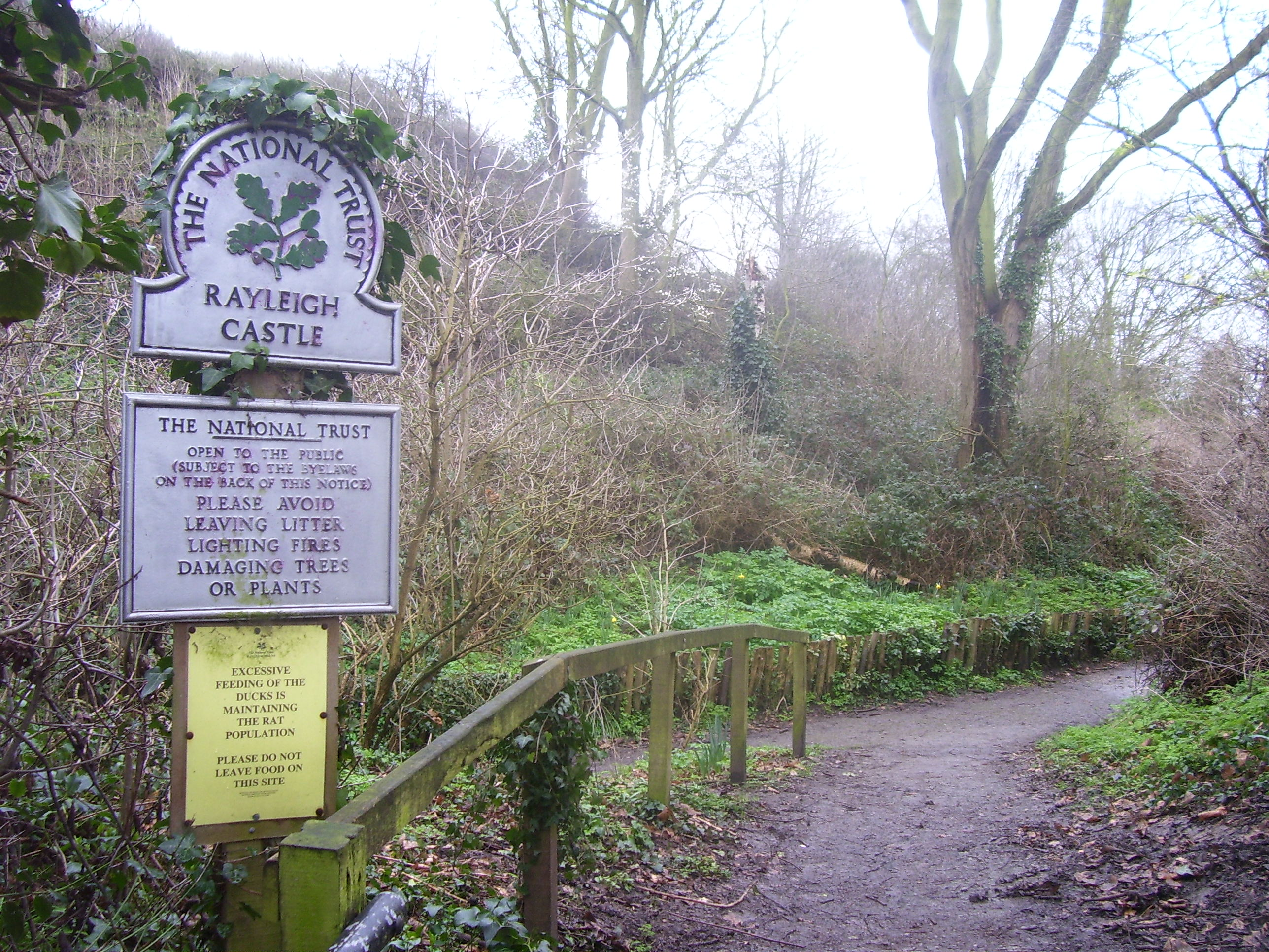 Rayleigh Mount